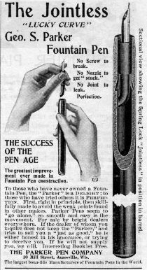 An advertisement for the Parker Jointless fountain pen, published in 1898.